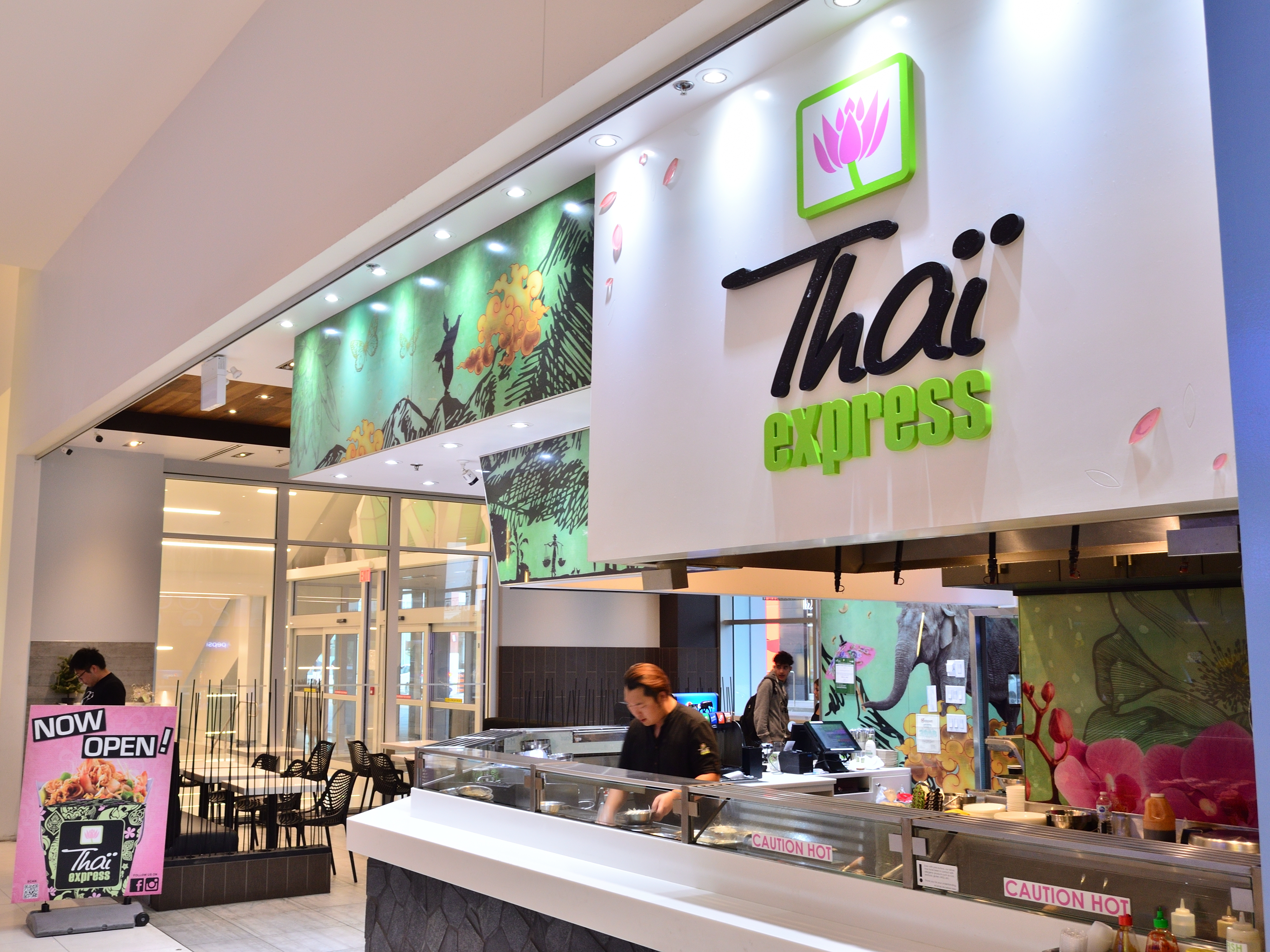 Thaï Express - Address: 169 Enterprise Boulevard, Markham, ON L6G 0E7 (Note: this location has closed)